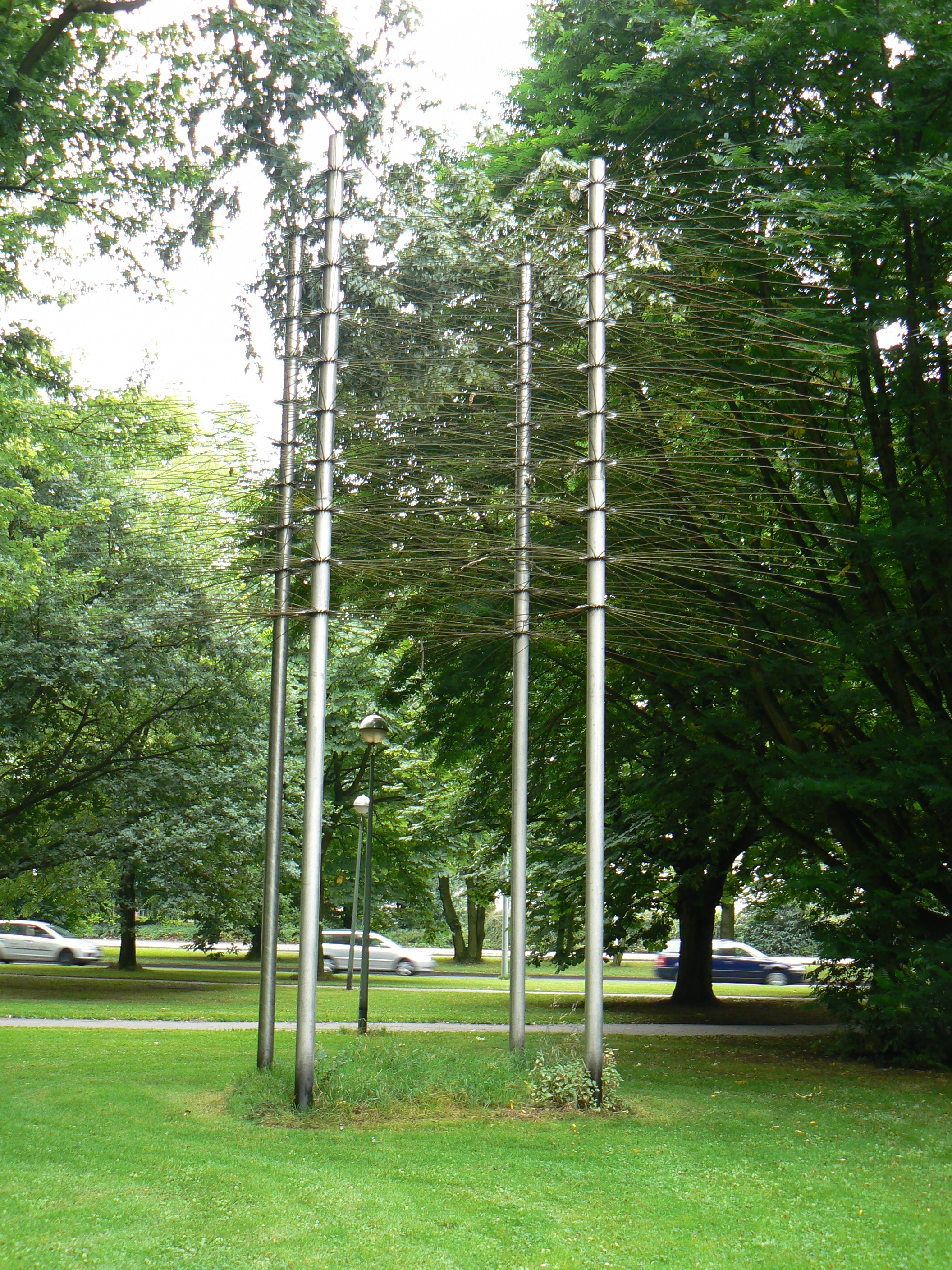 kinetic sculpture Antennenbäume 1981 by Rolf Glasmeier in Gelsenkirchen/Germany